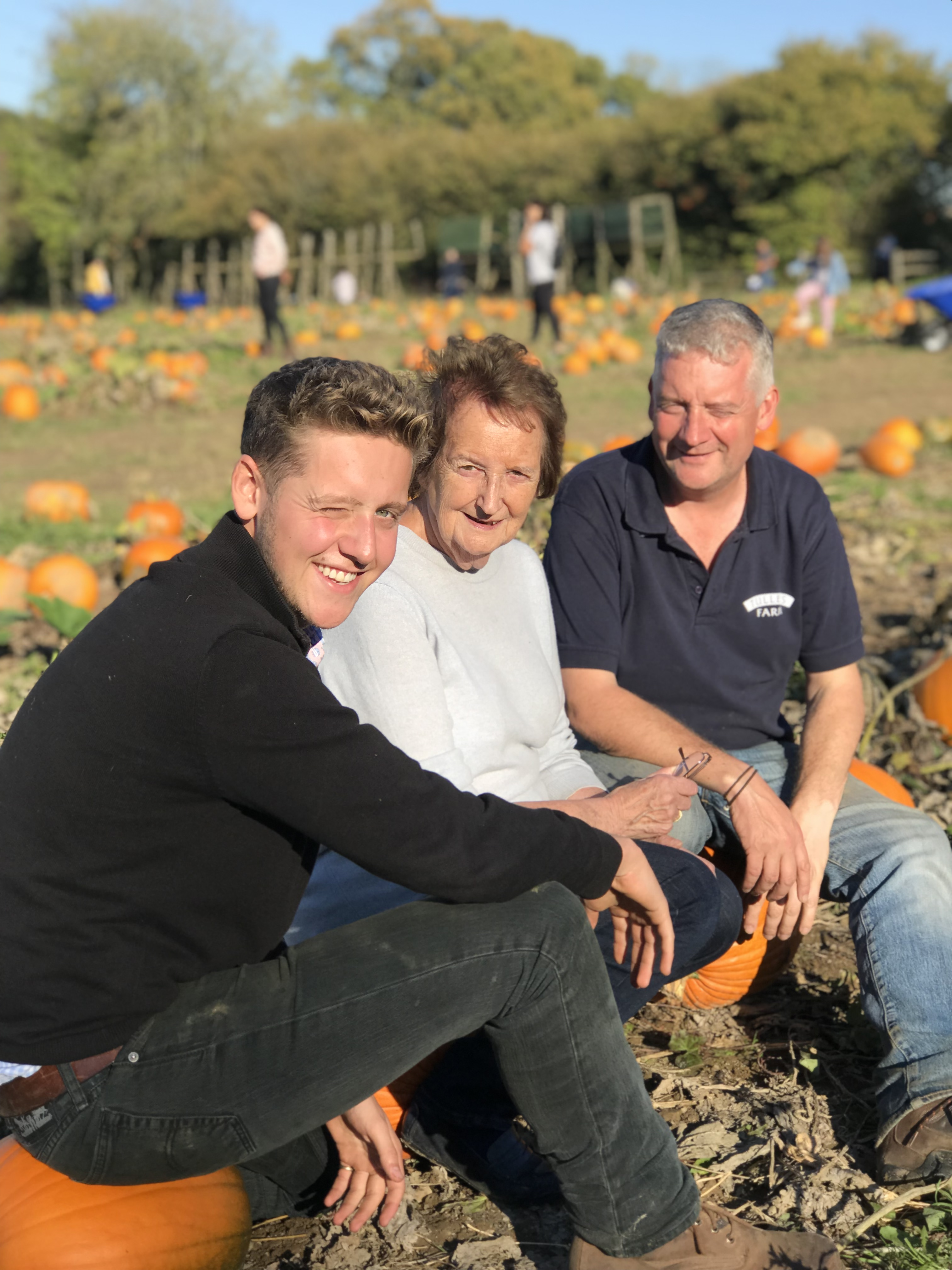 Sam, Marion, Stuart Beare